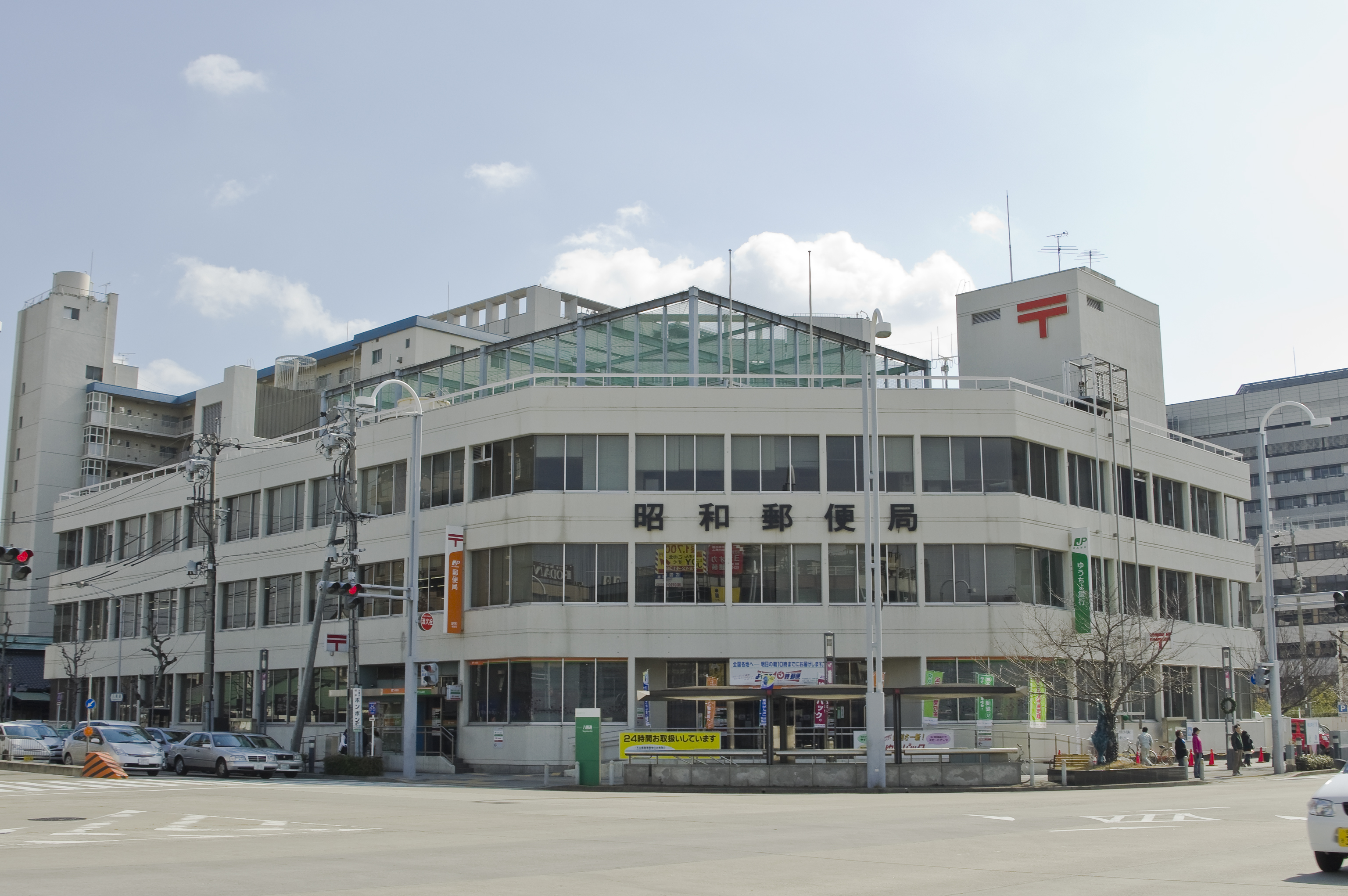 Showa Post Office in Showa-ku, Nagoya, Aichi, Japan